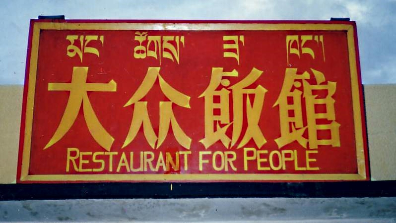 Restaurant for People (大众饭馆 Dà​zhòng Fàn​guǎn; མང་ཚོགས་ཟ་ཁང་།) - I took this photo on a visit to Shigatse, Tibet in 1993